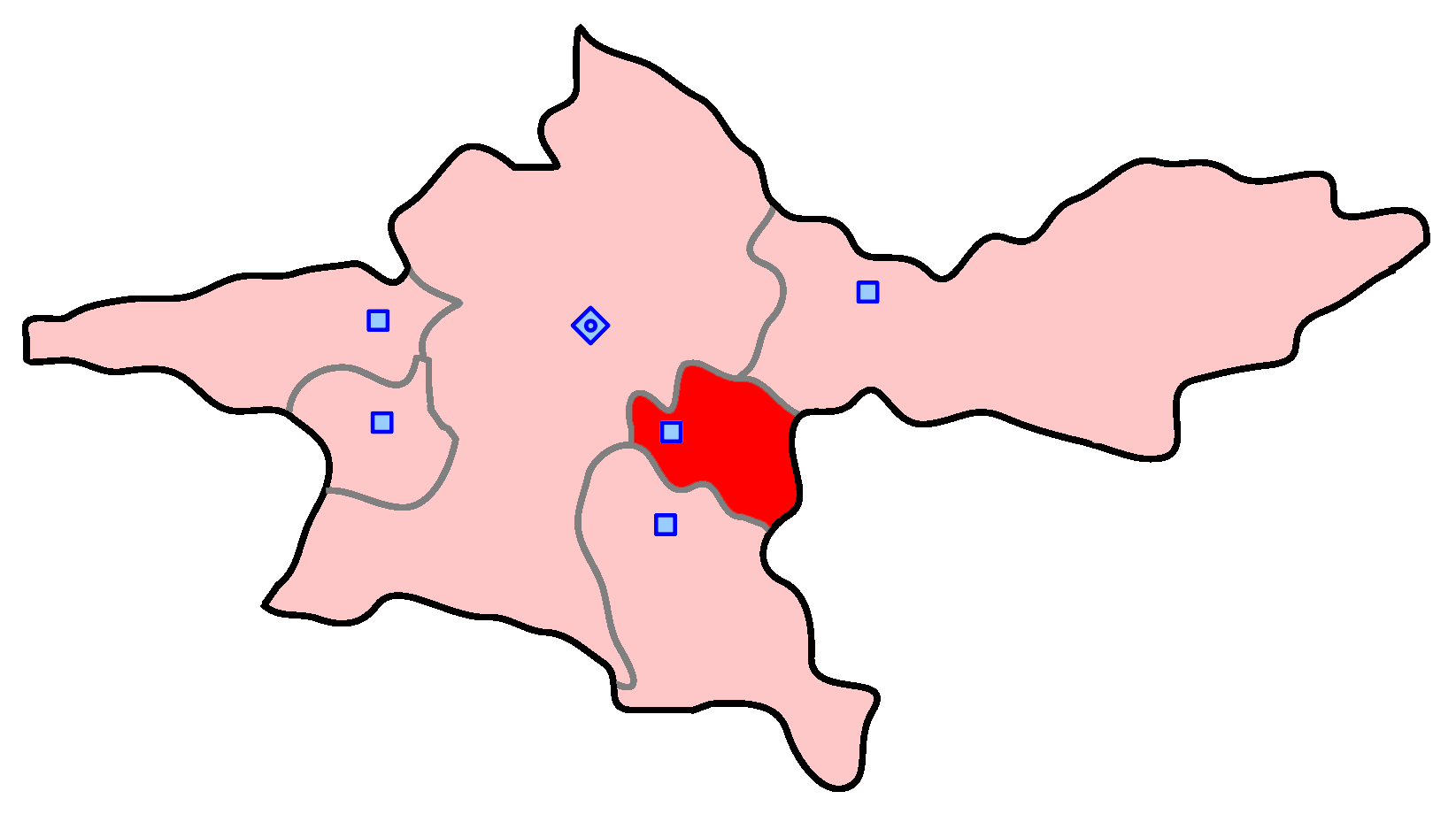 map of Pakdasht electoral district, Tehran Province, Iran